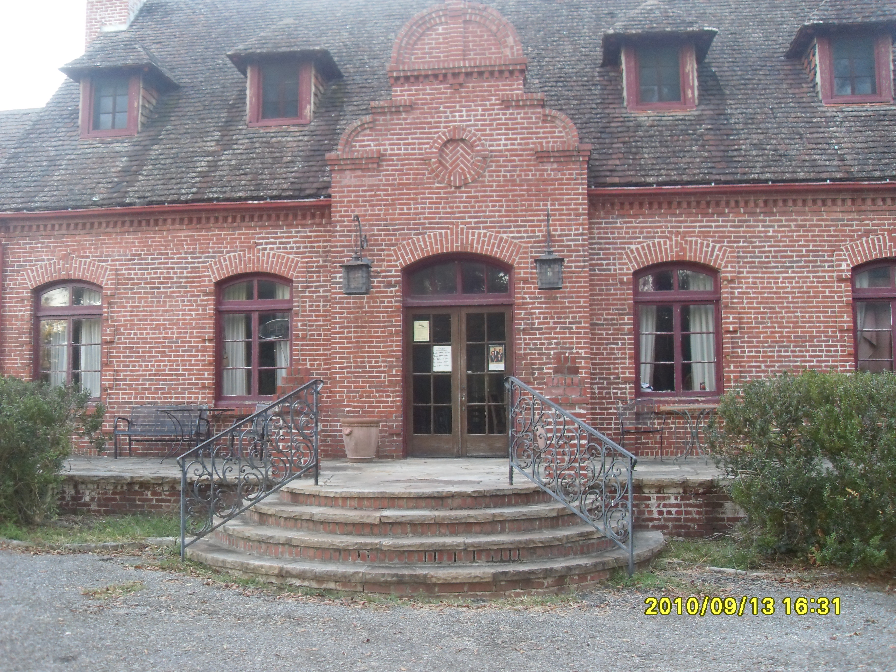 A picture of The Riegeldale Tavern on 13 Sept 2010, restaurant in Trion, Georgia, USA